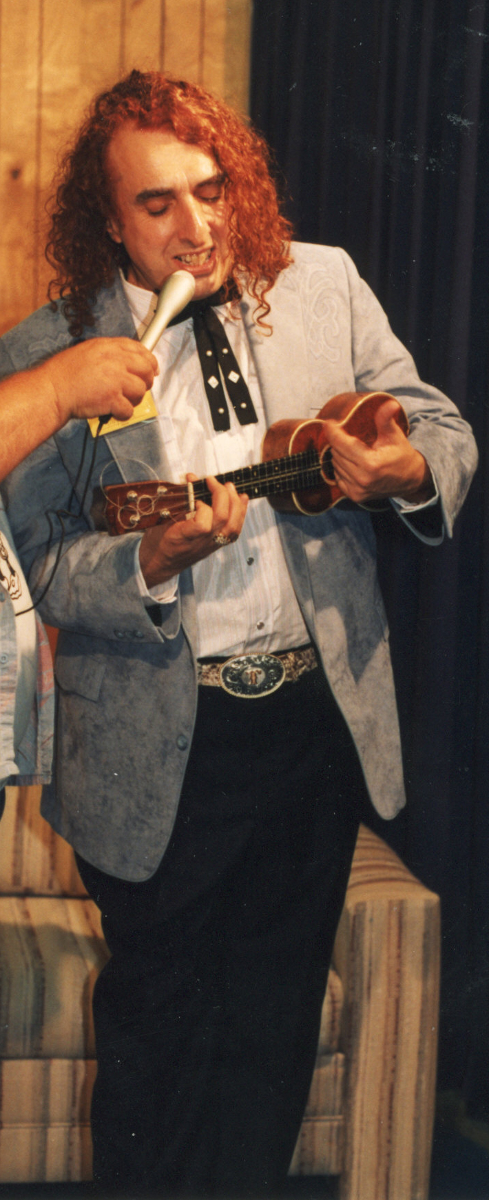 Tiny Tim performing for media interviews during Country Music Fan Fair at the Tennessee State Fair Grounds in Nashville Tennessee 1988 or 89 photo was taken by myself Christina Lynn Johnson, MagnetLoft while working for various Canadian Radio Stations during the event including CKDQ Q91 Drumheller, Alberta (On-Air name Tina Stephenson) Christina Lynn Johnson, MagnetLoft - Vistadeck ID 4507523 06:45, 29 June 2007 (UTC)